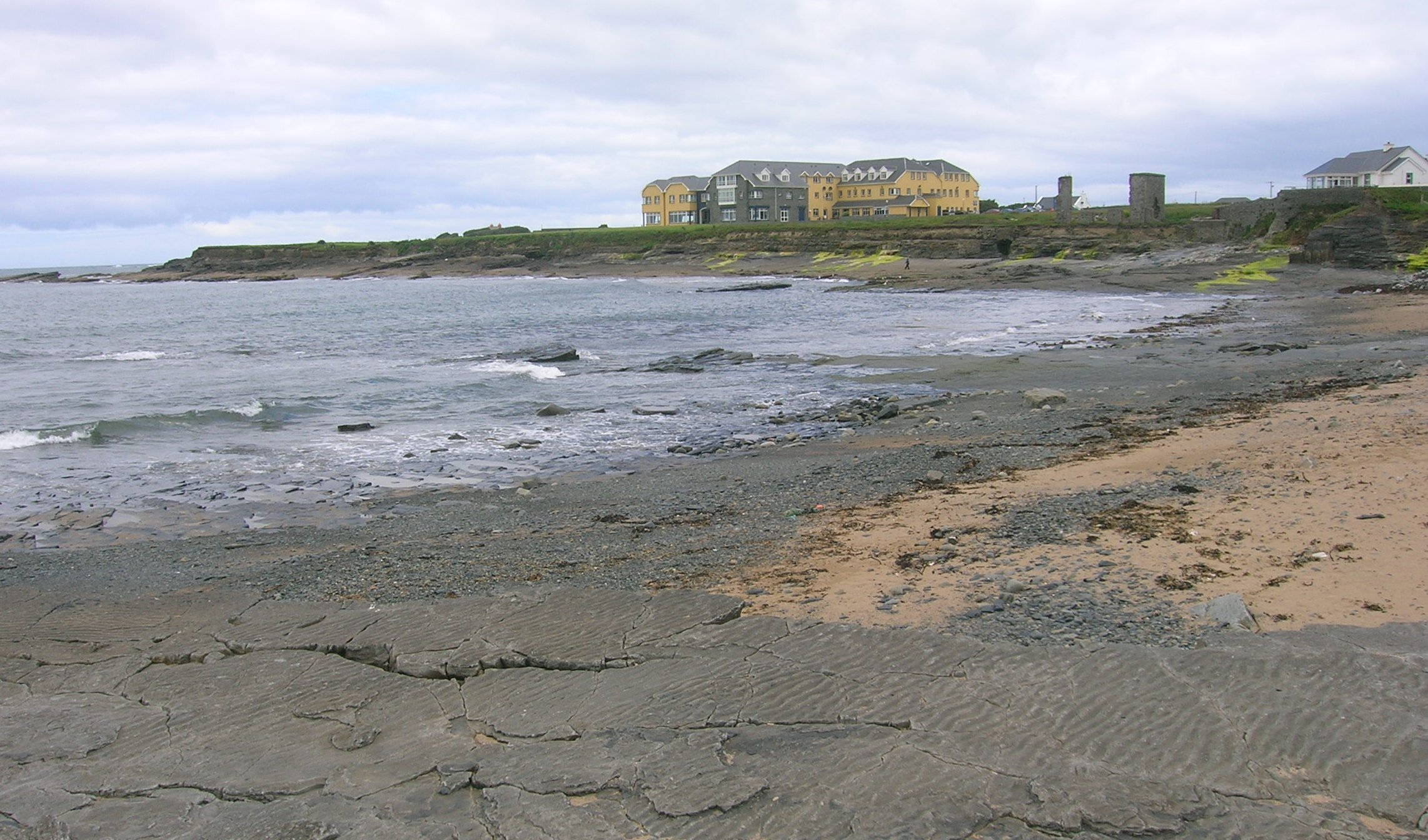 Rinn na Spainneach / Spanish Point, Miltown Malbay, County Clare, Ireland.